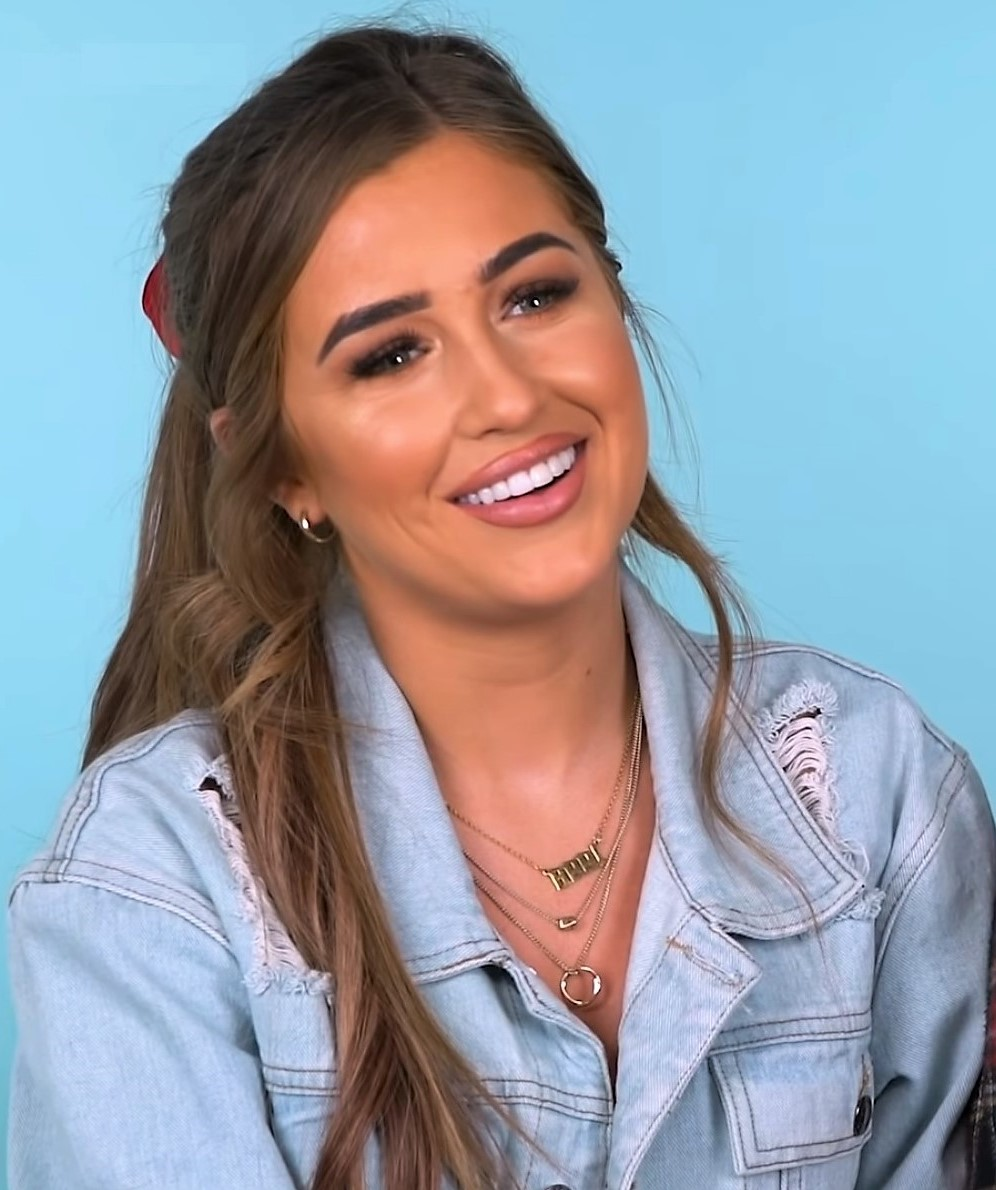 Ex-Islanders Rosie, Wes and Georgia's opinions on week 1 of Love Island 2019 | Cosmopolitan UK In our new weekly franchise, Cosmopolitan UK gets ex-Islanders to give their thoughts and first impressions on this week’s Love Island. Which Love Island 2019 contestant’s been mugged off? Who’s going to be joining the Do Bits Society? And how does this year’s series compare to their time in the villa? This week, Georgia Steel, Wes Nelson and Rosie Williams discuss the best moments during week 1 of the new series, and it gets juicy. Reaaaal juicy.